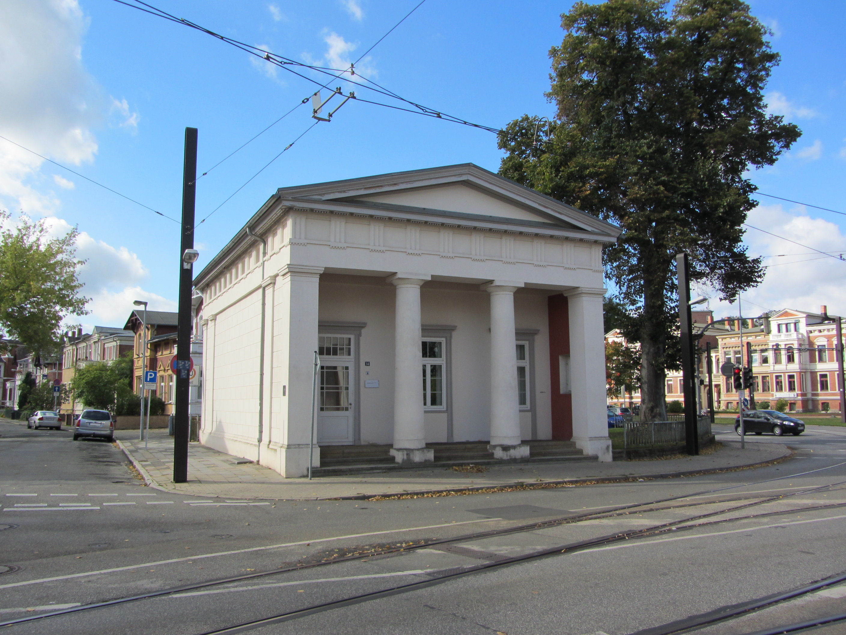 Platz der Jugend 14, Gatehouse Berliner Tor in Schwerin, Mecklenburg-Vorpommern, Germany